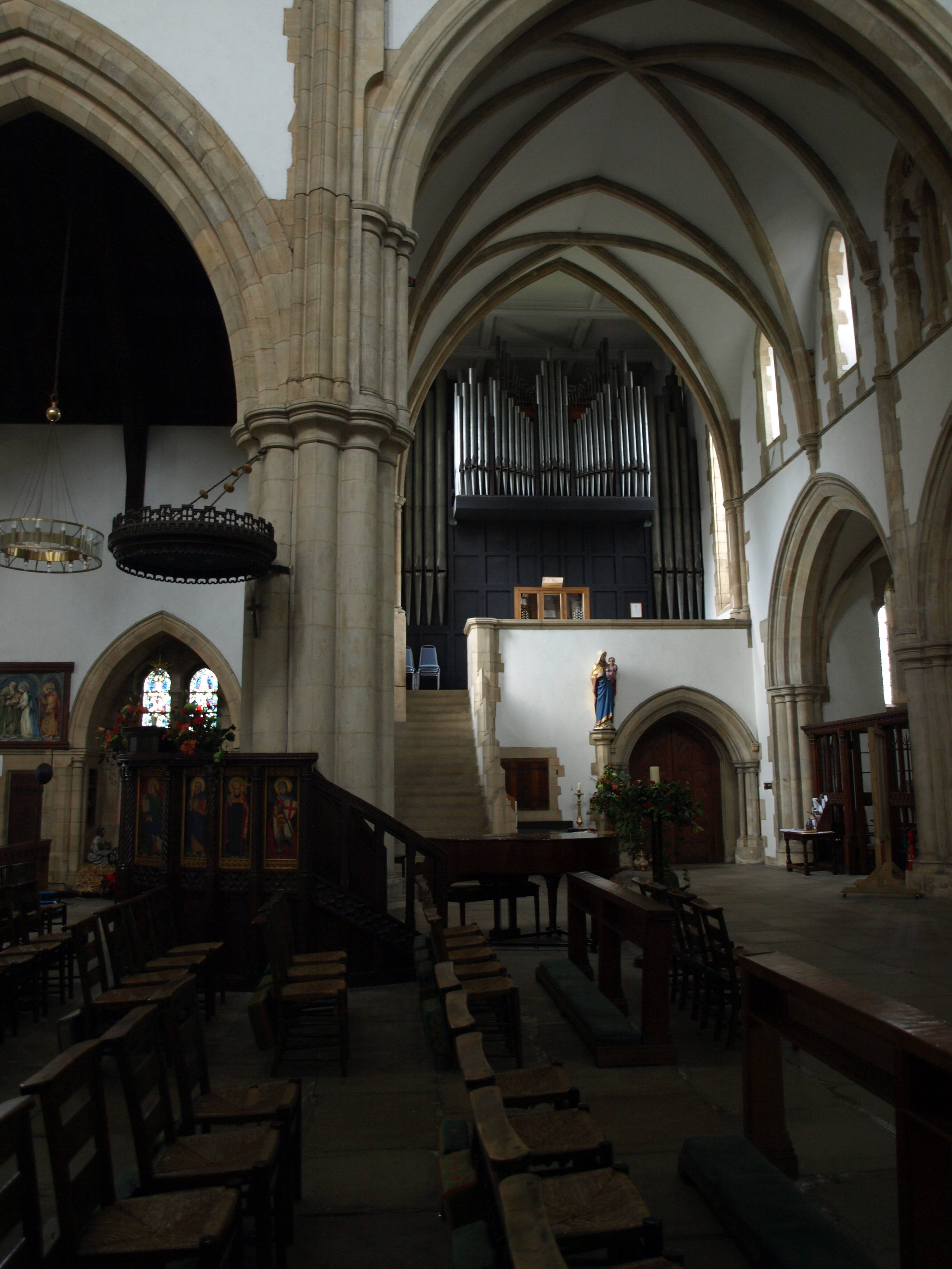 The organ in St Wilfrid' Church, Harrogate, North Yorkshire